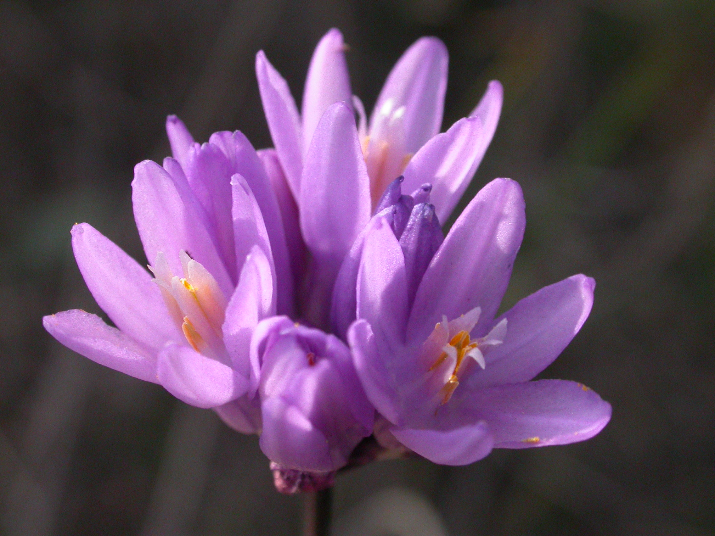 Dichelostemma capitatum — Blue dicks. Plant of California chaparral and woodlands habitats. In the Voorhis Ecological Reserve at California State Polytechnic University, Pomona, California.